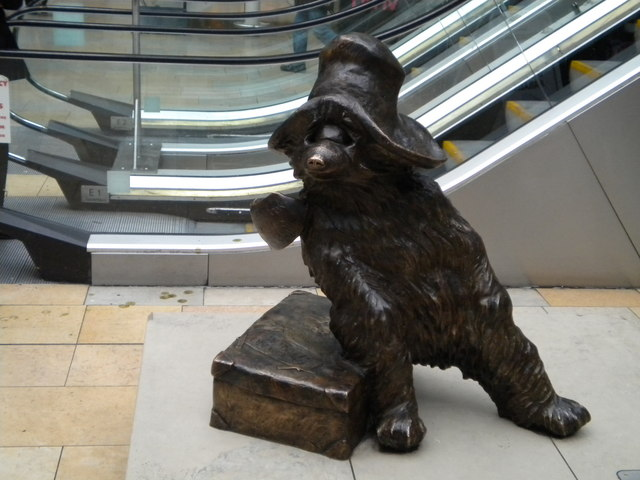 Paddington Bear, Paddington Station W2